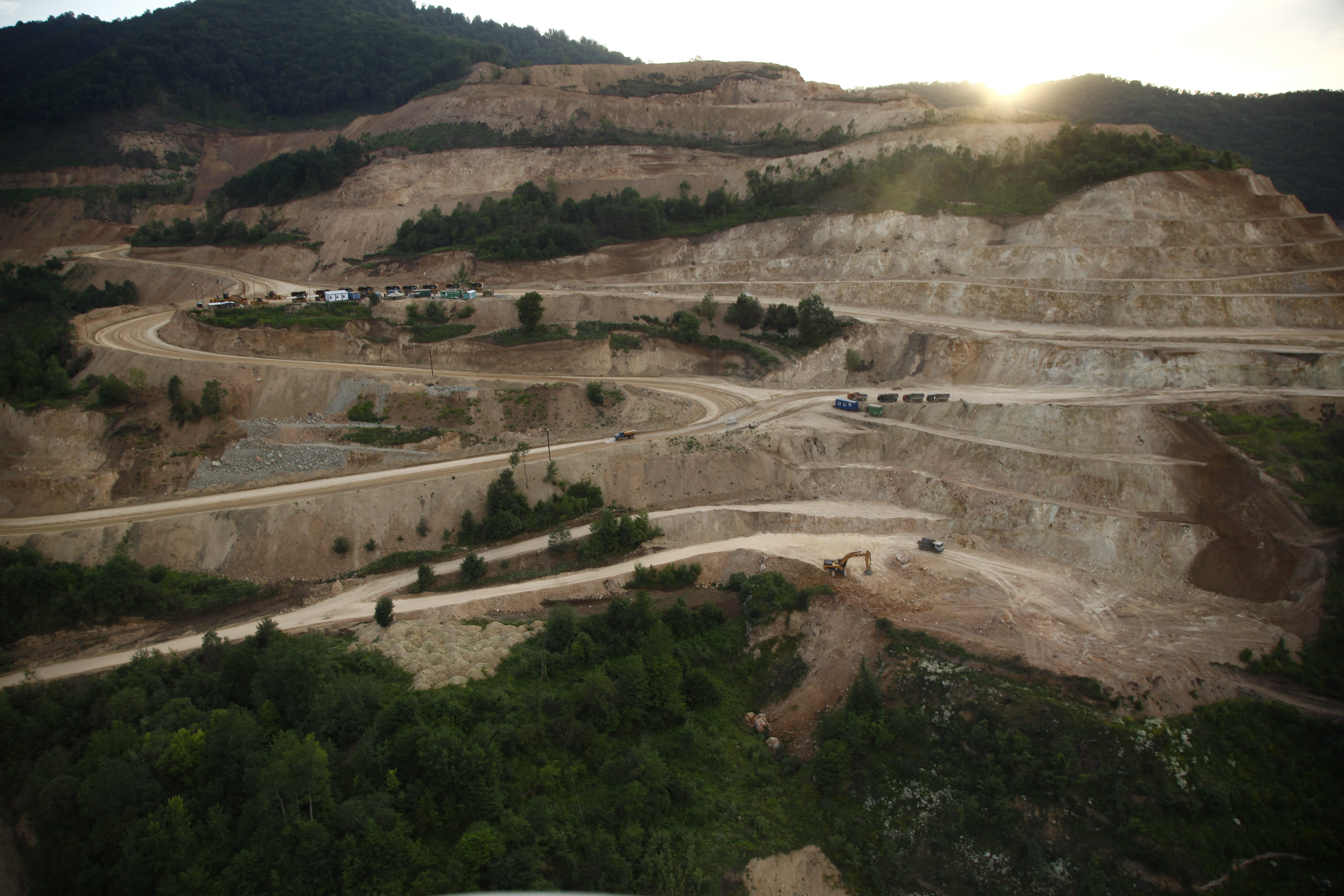 Teghut Copper Mine